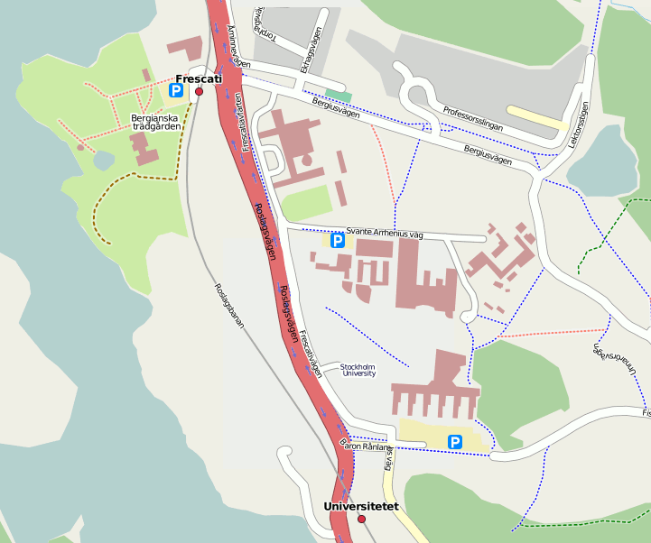 Map of Frescati (Stockholm), campus for Stockholm University and the Swedish Museum of Natural History.